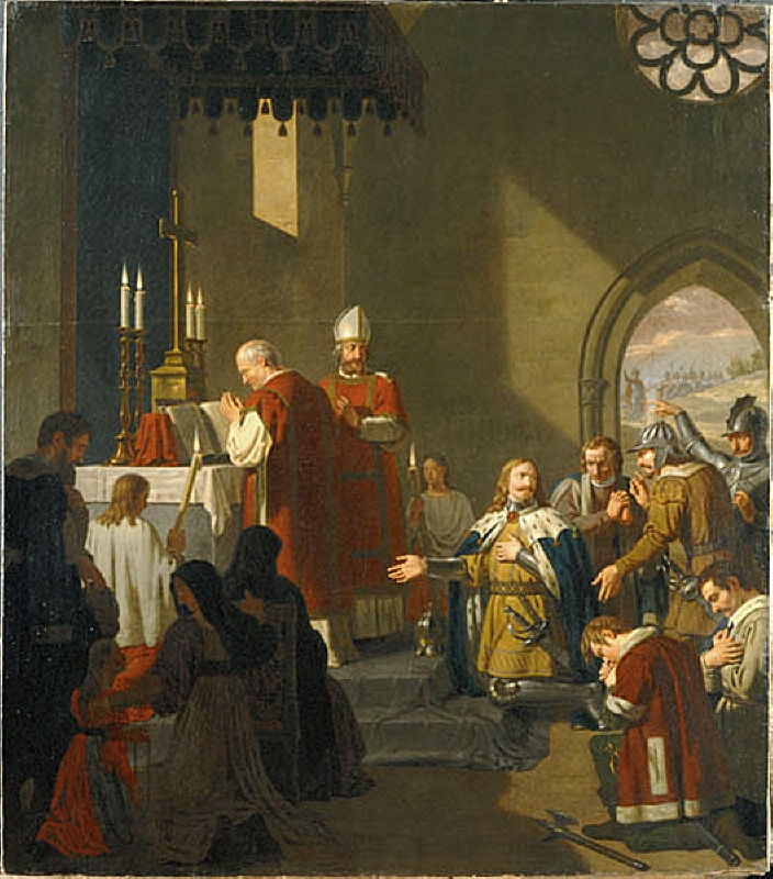 The Arts and Virtues at the Tomb of Gustav III of Sweden